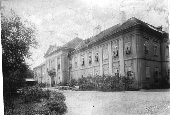 Mansion of the Kiss family in Elemir, Serbia. Demolished in 1936.